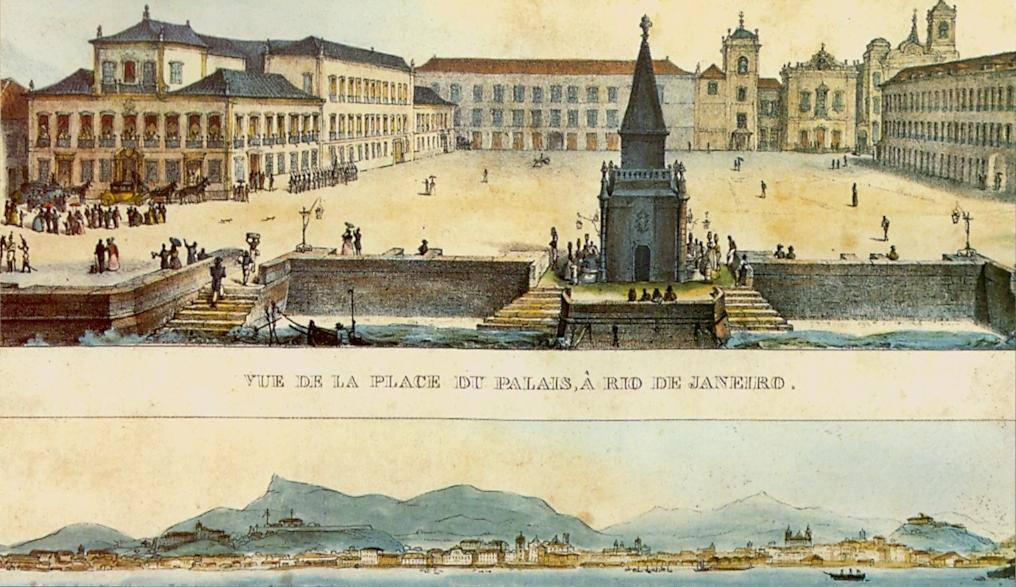 View from the Imperial Palace in Rio de Janeiro, c.1830.